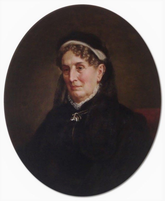 Sarah Childress Polk by George Dury